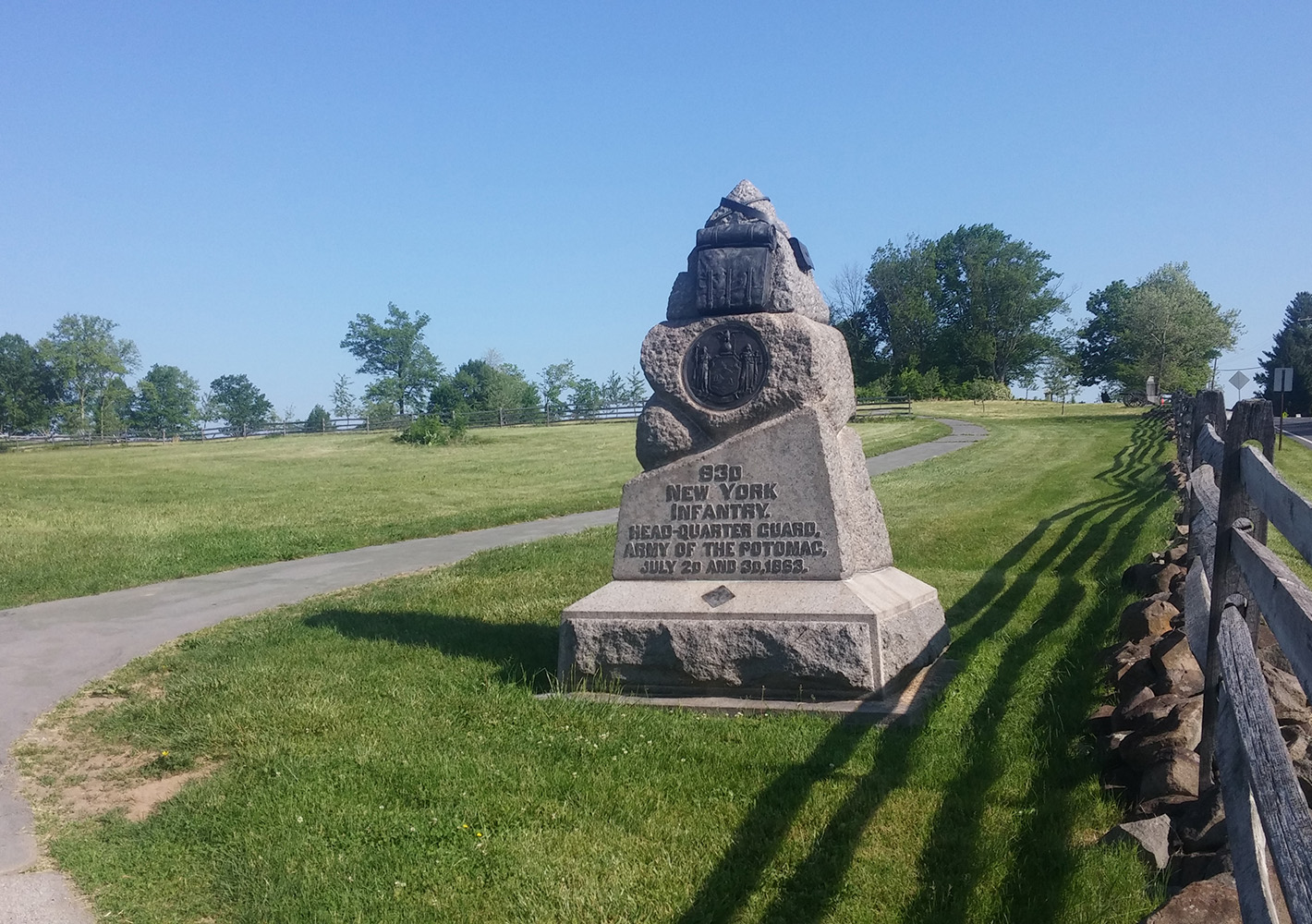 83 New York infantry regiment monument at Gettysburg.